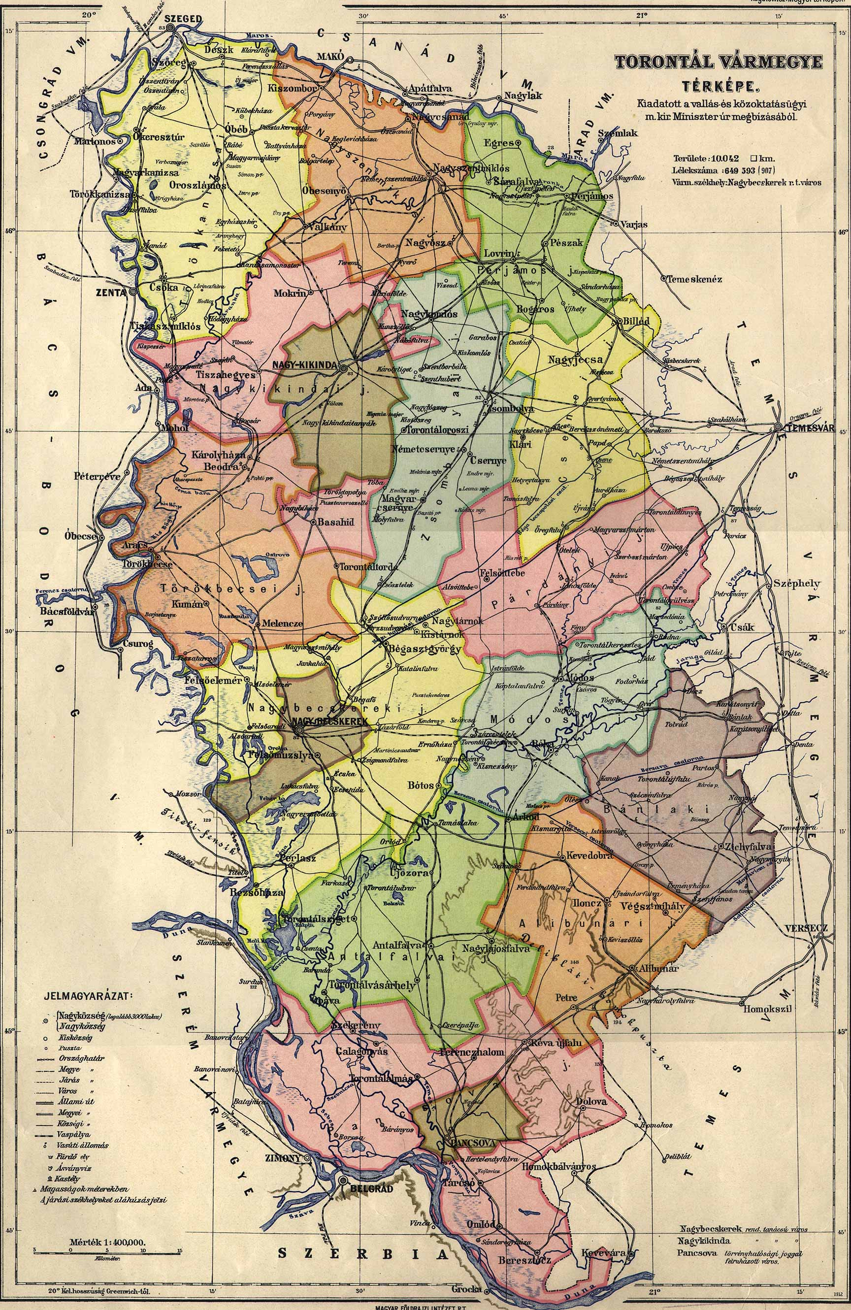 Administrative map of the county of Torontál in the Kingdom of Hungary